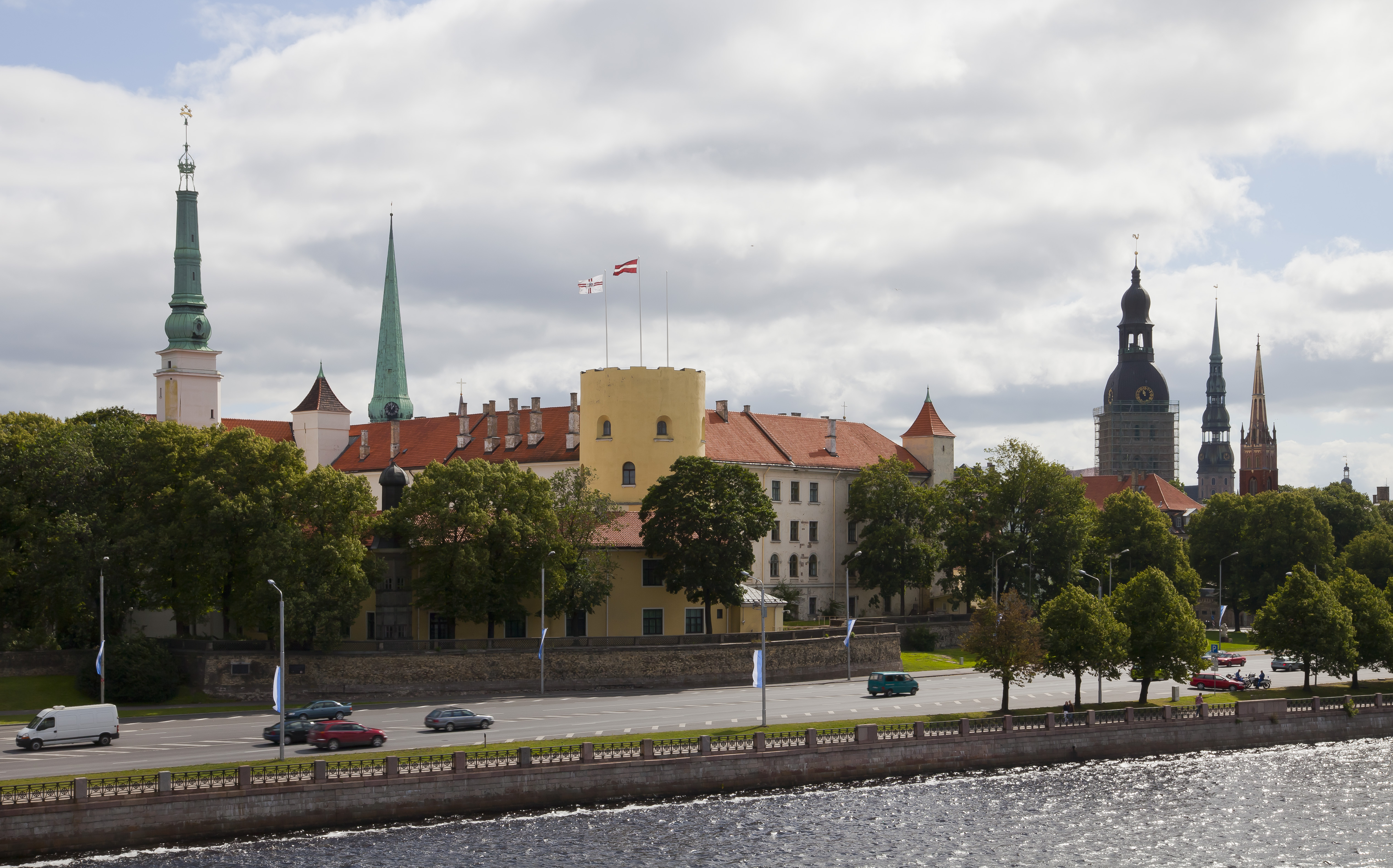 Riga Castle, Riga, Latvia